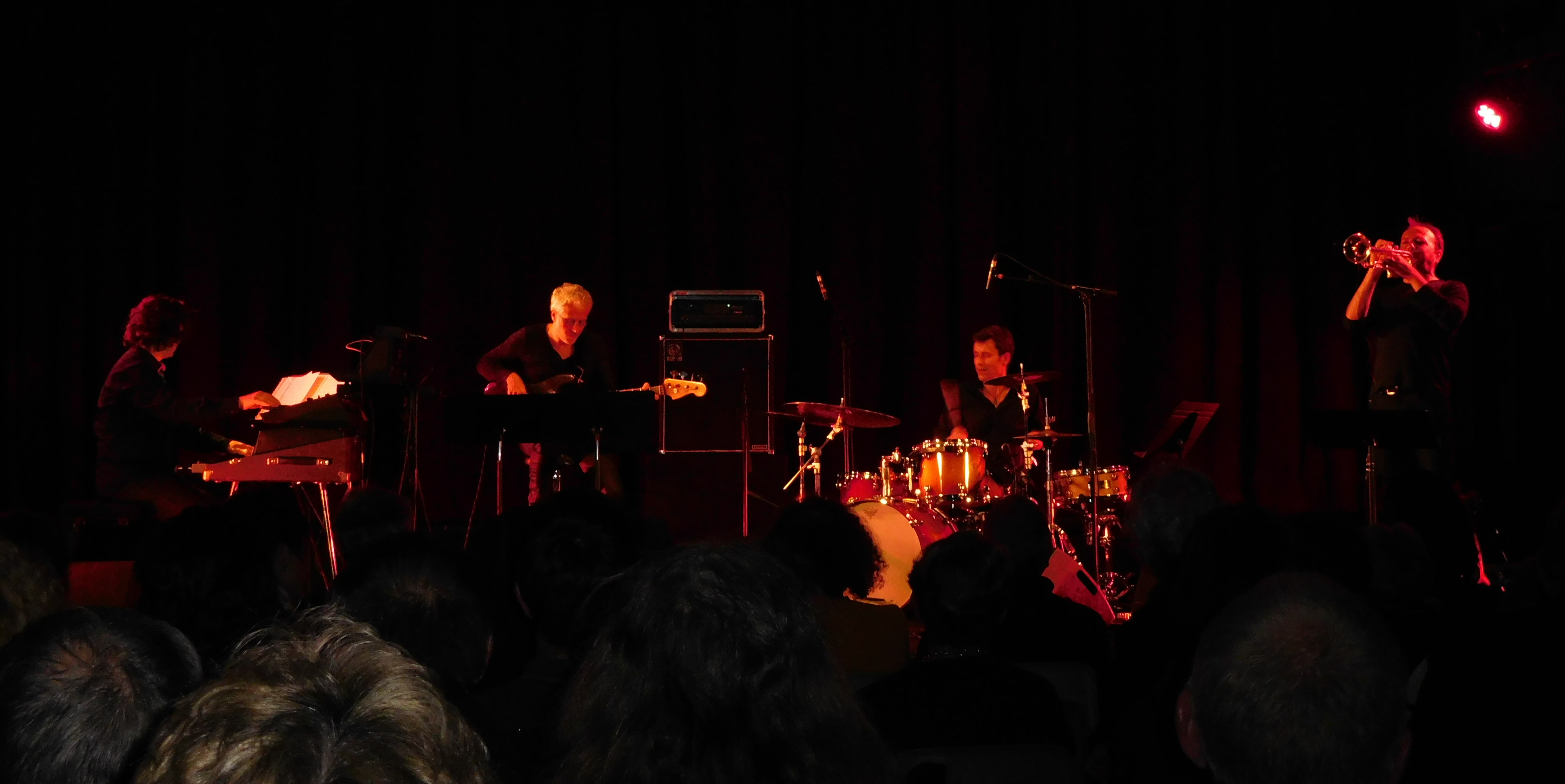 "Chut !" is the Fabrice Martinez quartet. Left to right: Frédéric Escoffier (keyboards), Bruno Chevillon (bass), Éric Échampard (Remo drums) and Fabrice Martinez (trumpet, flugelhorn, tuba). D'Jazz Nevers, Jazz-Club des Palais, in Nièvre department (Burgundy, France), on 9 May 2016.